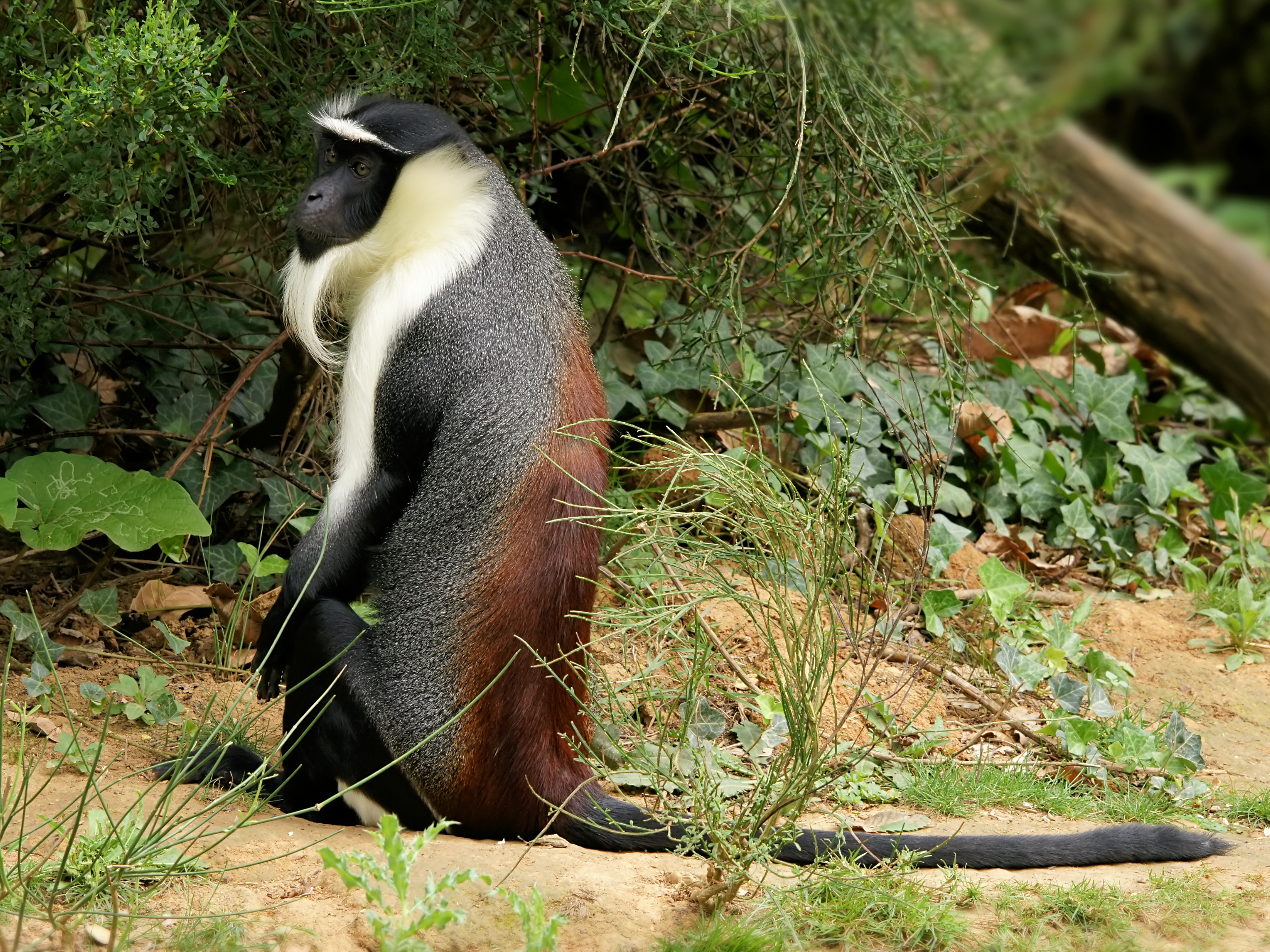 Roloway Monkey at La Vallée de Singes, at Romagne (Vienne, Poitou-Charentes), France.